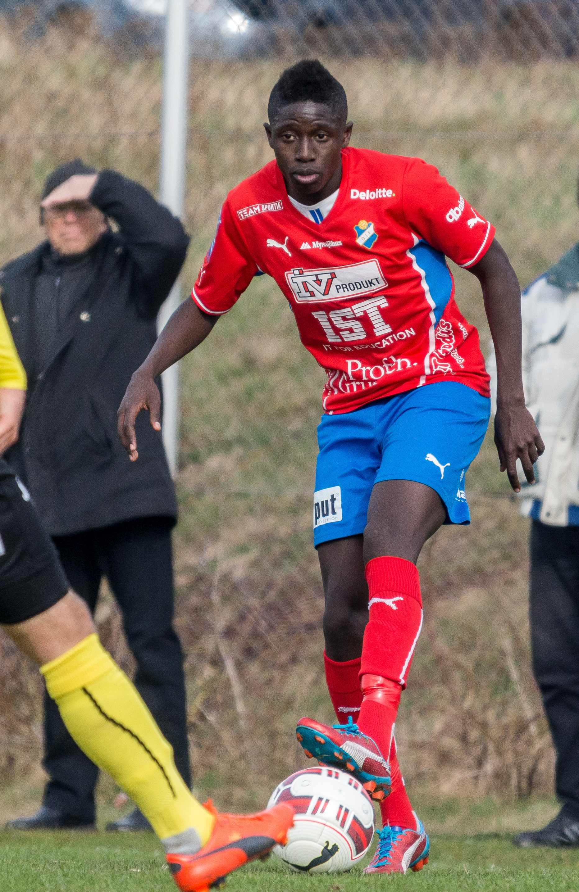 Swedish football defender Pa Konate playing a pre-season friendly for Östers IF against Mjällby AIF in Hällevik, March 22 2014.